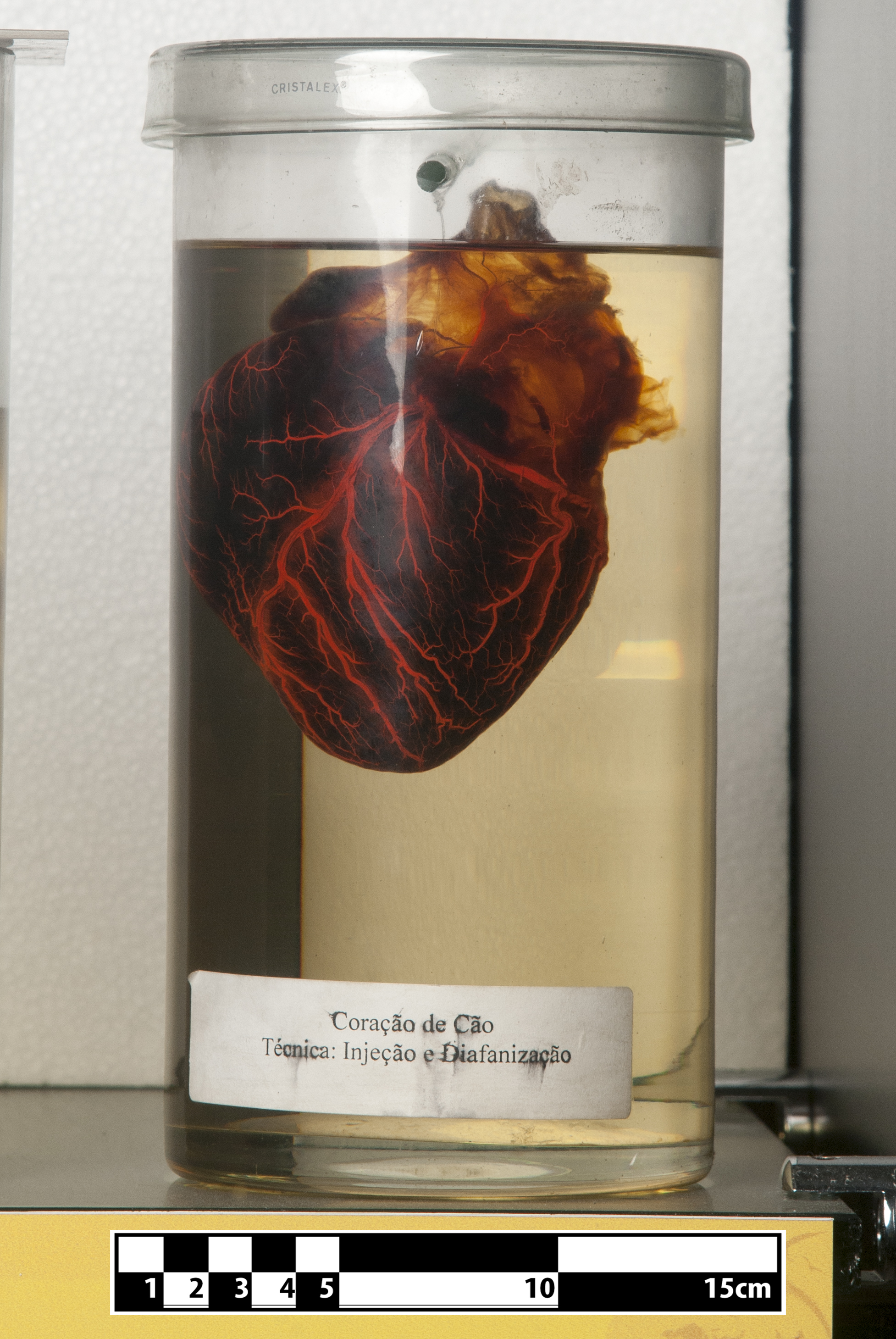 Dog heart. Canis lupus familiaris Gelatin injection and Spalteholz diaphanization – specimen clarified for visualization of anatomical structures on display at the Museum of Veterinary Anatomy, FMVZ USP. Spalteholz diaphanization is a tissue clearing technique, described here. This file was published as the result of a partnership between the Museum of Veterinary Anatomy FMVZ USP, the RIDC NeuroMat and the Wikimedia Community User Group Brasil. This GLAM project is reported. Photography: Museum of Veterinary Anatomy FMVZ USP. Author: Wagner Souza e Silva.